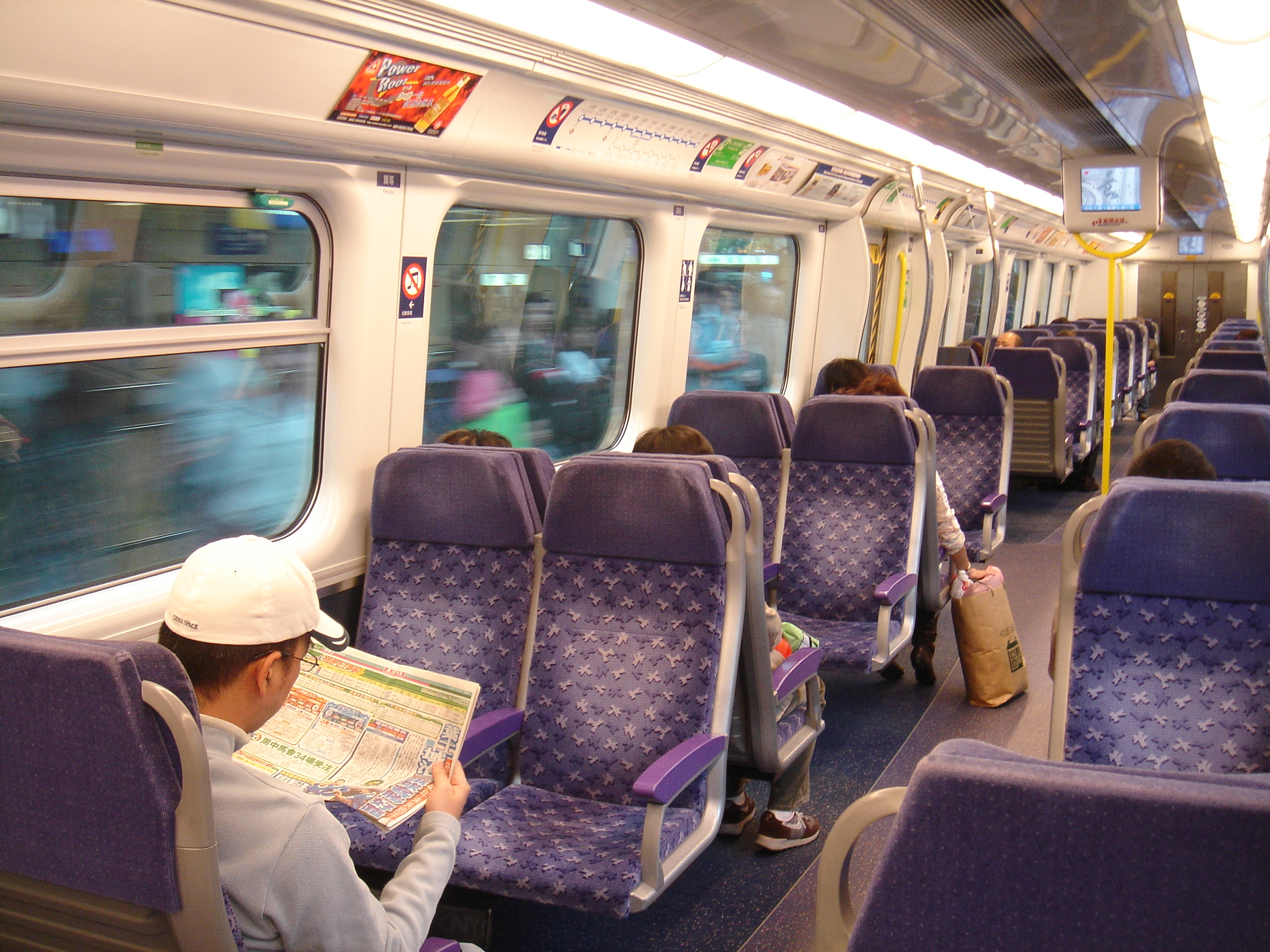 1st Class Compartment, 3nd Generation rolling stock by Kinki Sharyo of Japan, on board the KCR East Rail. Passengers travelling on 1st class pay double the normal fare.